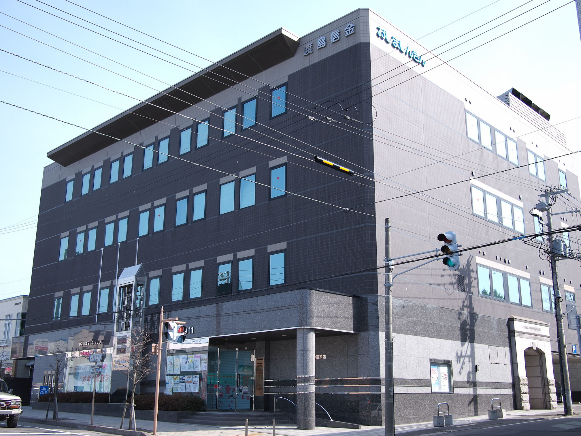 Oshima Shinkin Bank, Mori, Hokkaido, Japan